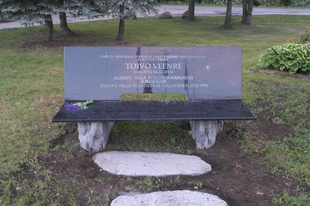 A memory bench for Toivo Veenre